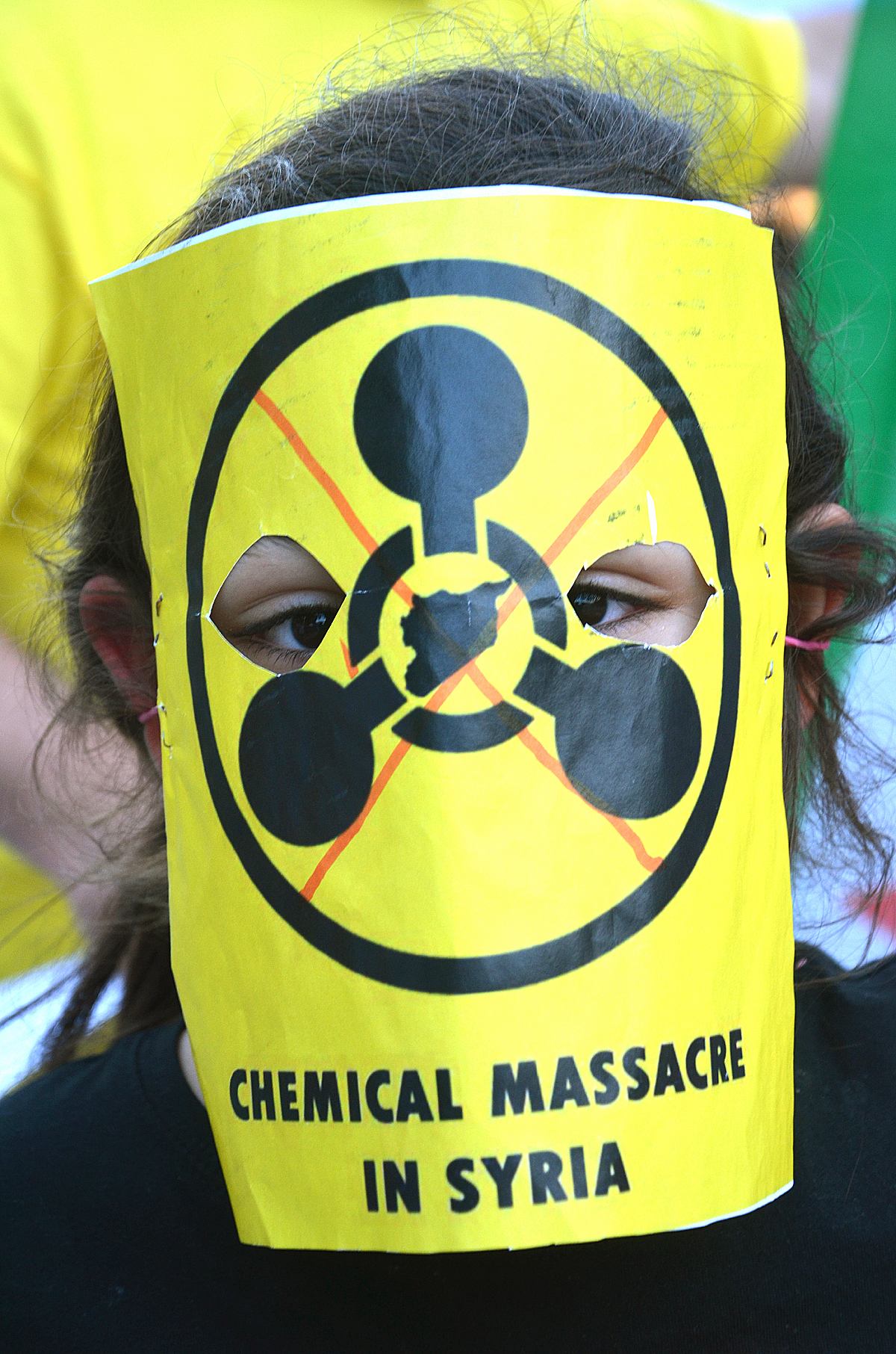 On August, 21th 2015 members of the Syrian community of Hannover remembered to the Ghouta chemical attack during the Syrian Civil War ...